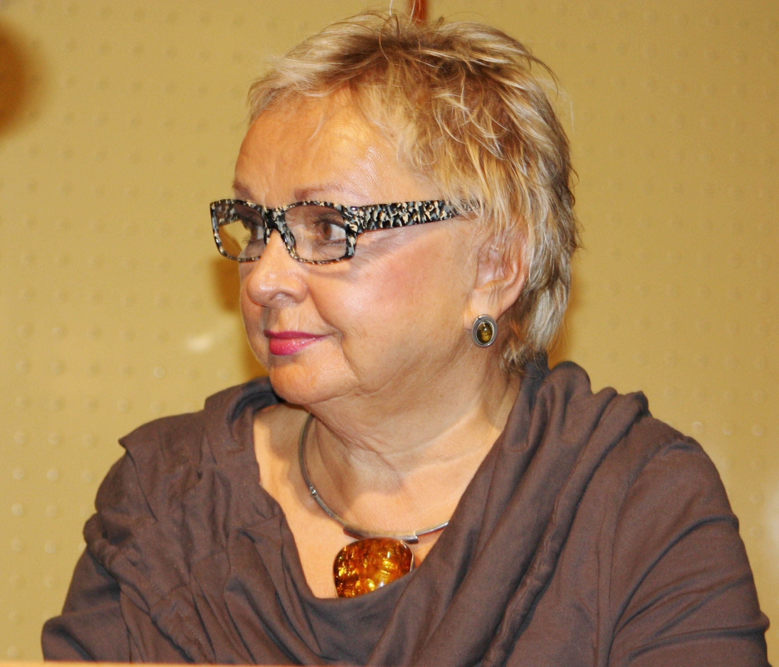 Finnish writer Raija Oranen at the Helsinki Book Fair 2010.